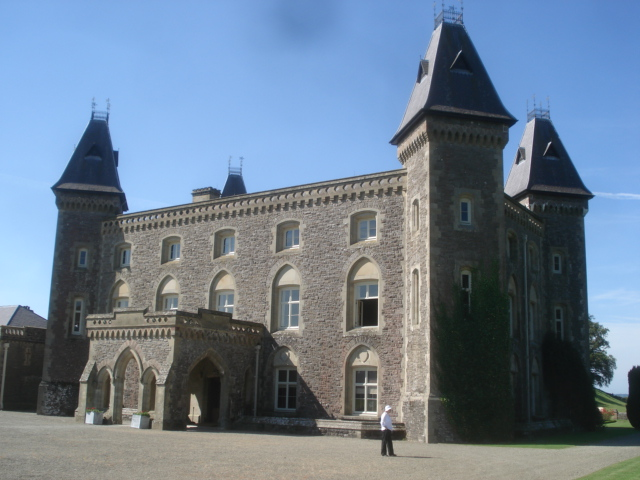 Newton House Front view looking south-west. The house is owned by the National Trust and the ground floor and basement can now be extensively toured (since refurbishment completed in October 2006).